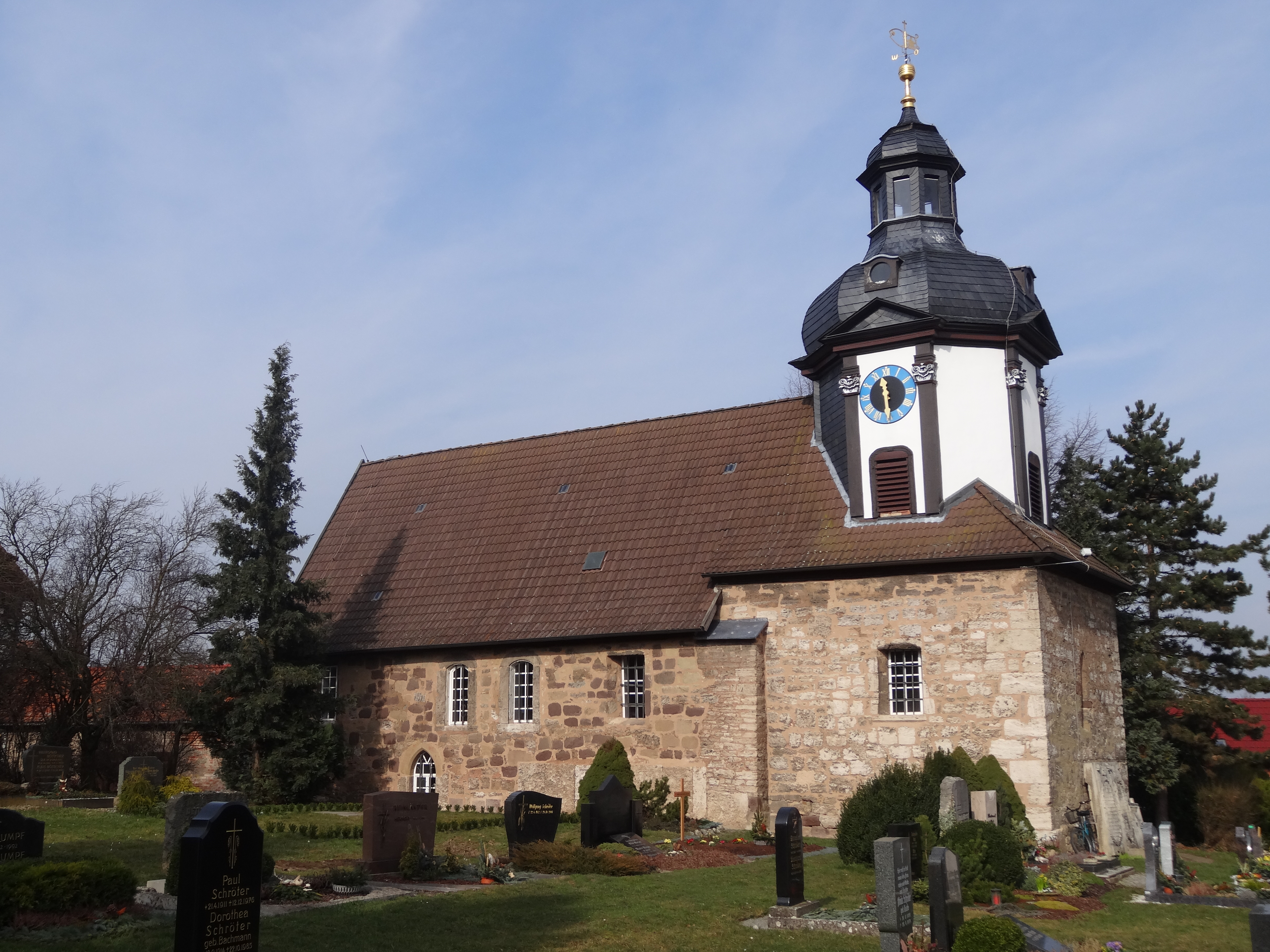 Church in Felchta, Thuringa, Germany